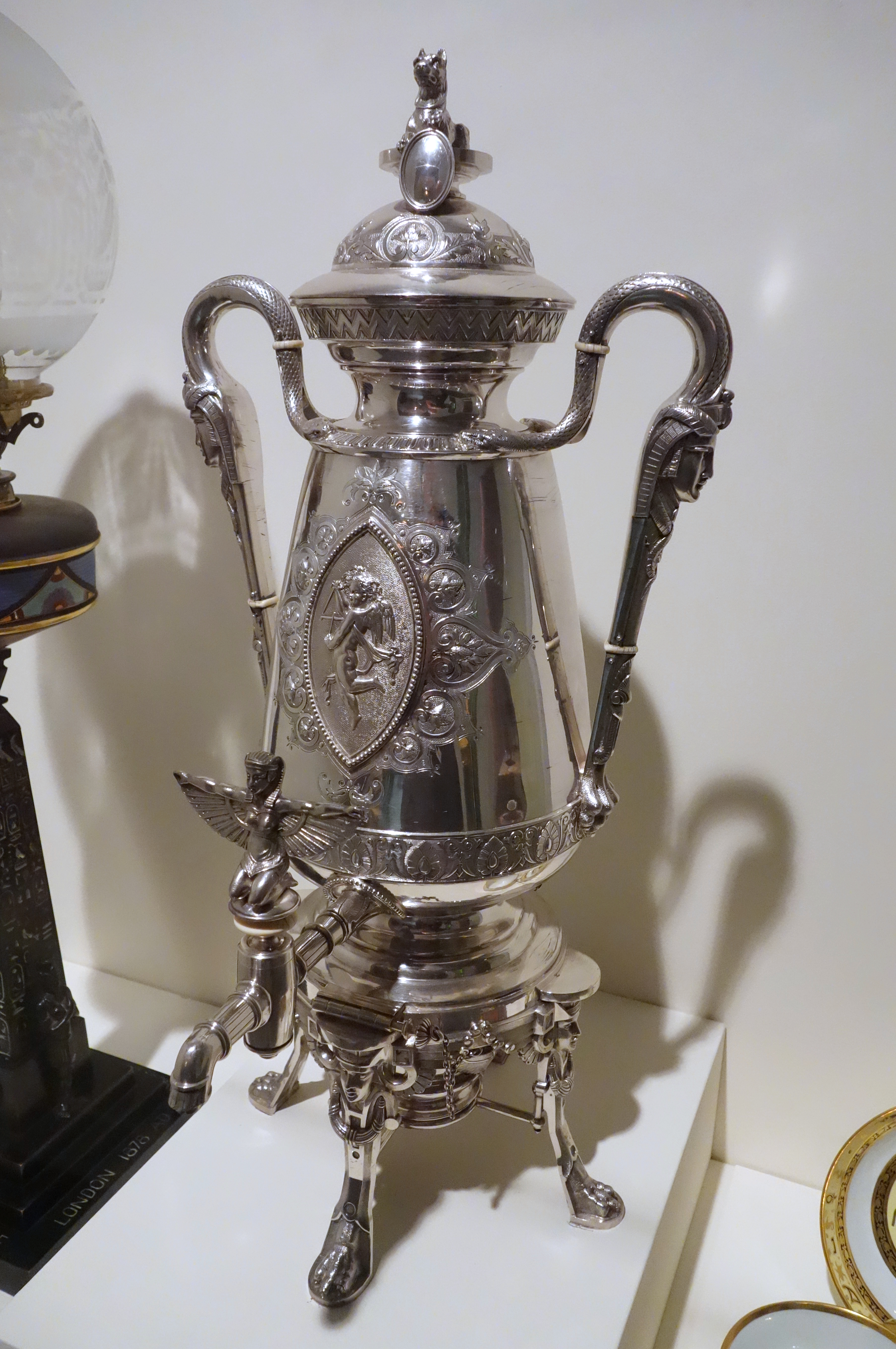 Exhibit in the Brooklyn Museum - Brooklyn, New York, USA. This artwork is in the public domain because the artist died more than 70 years ago.